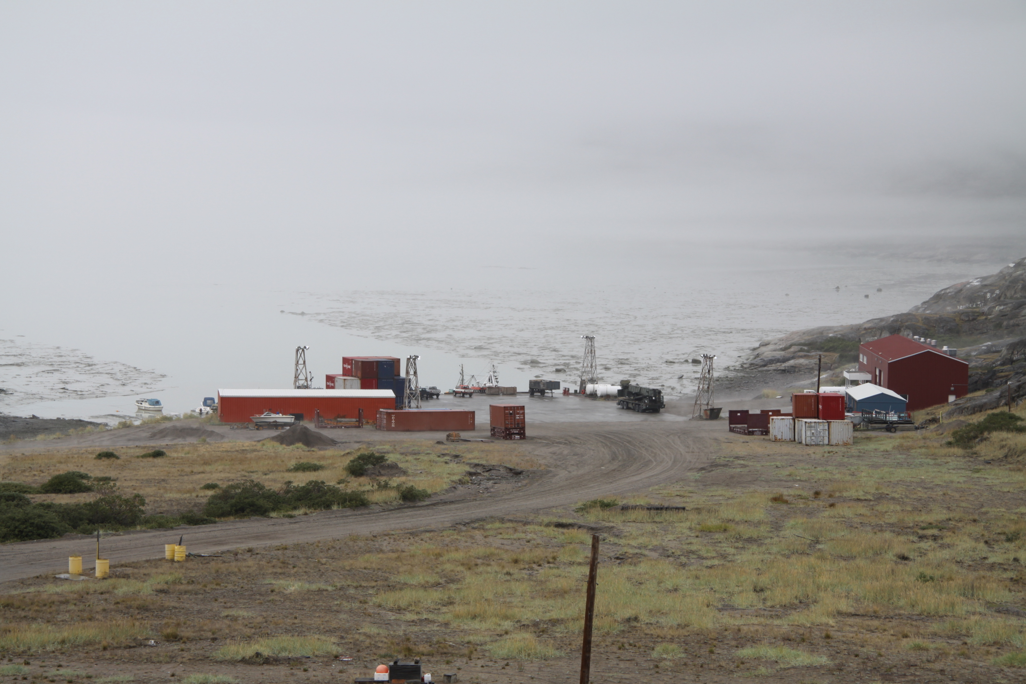 Kangerlussuaq Port, Western Greenland - Google Maps - Google Earth